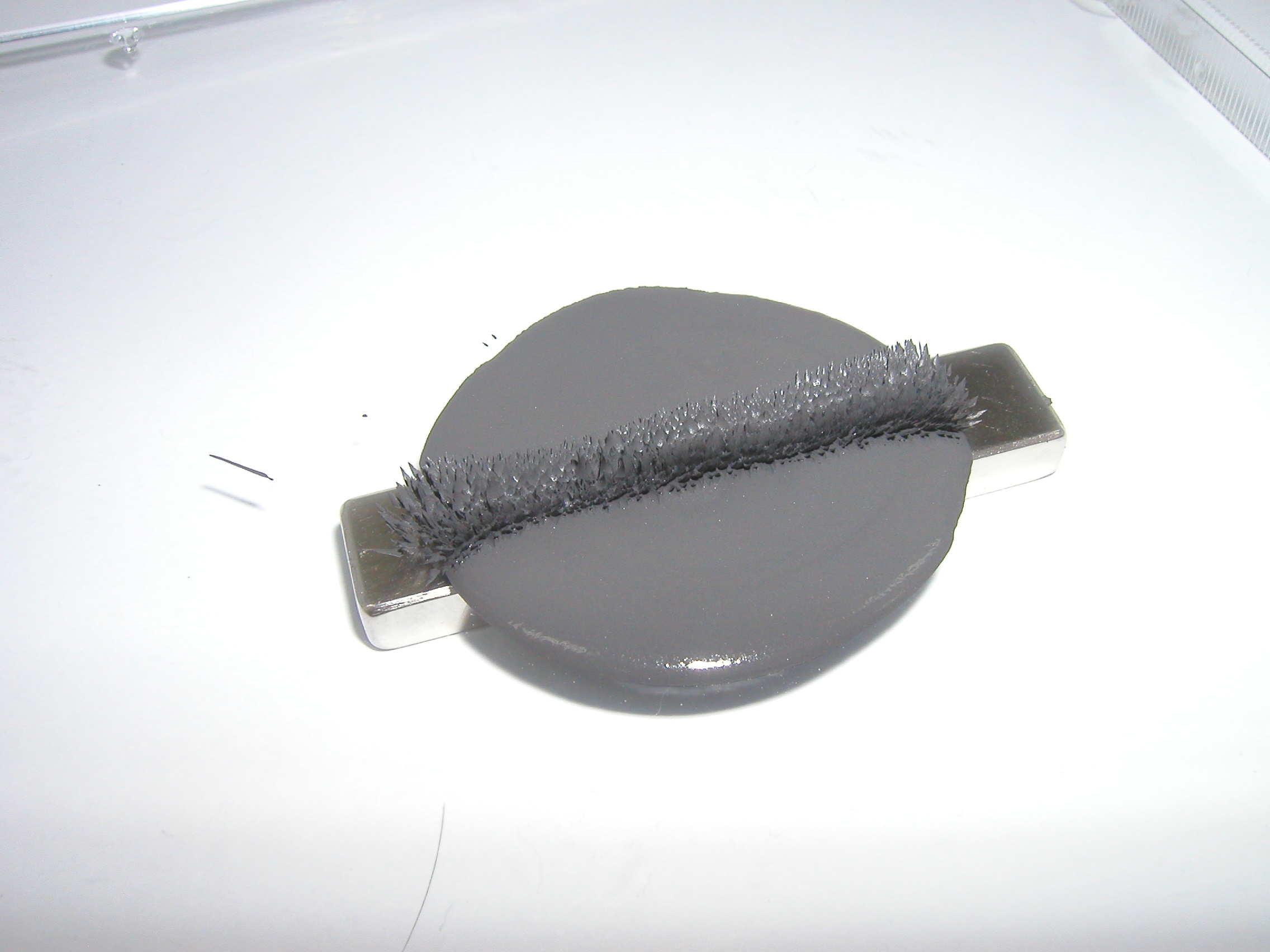 magnetorheological Fluid (MRF) on permanent magnet